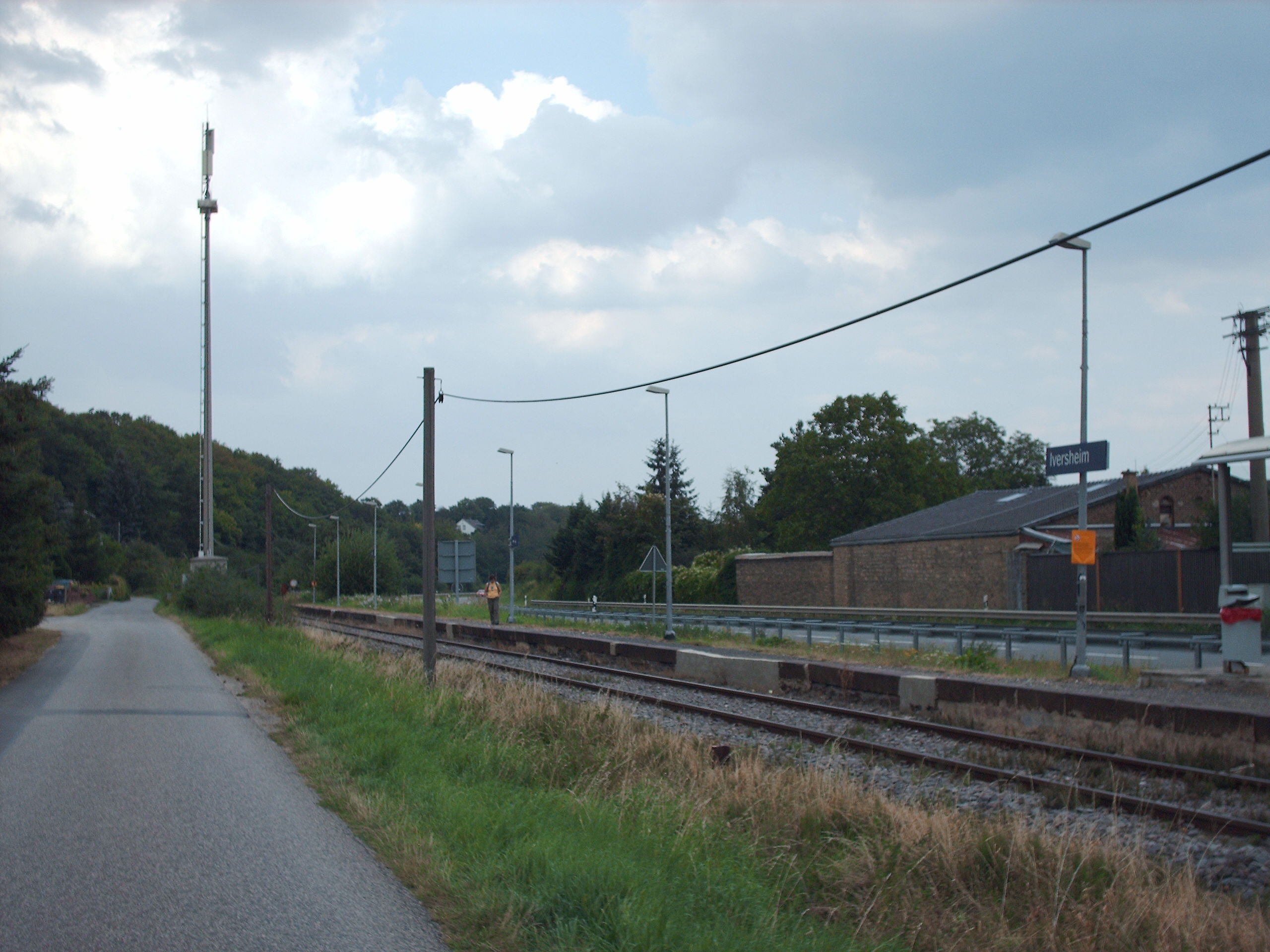 Iversheim station, Bad Münstereifel, Germany check usage